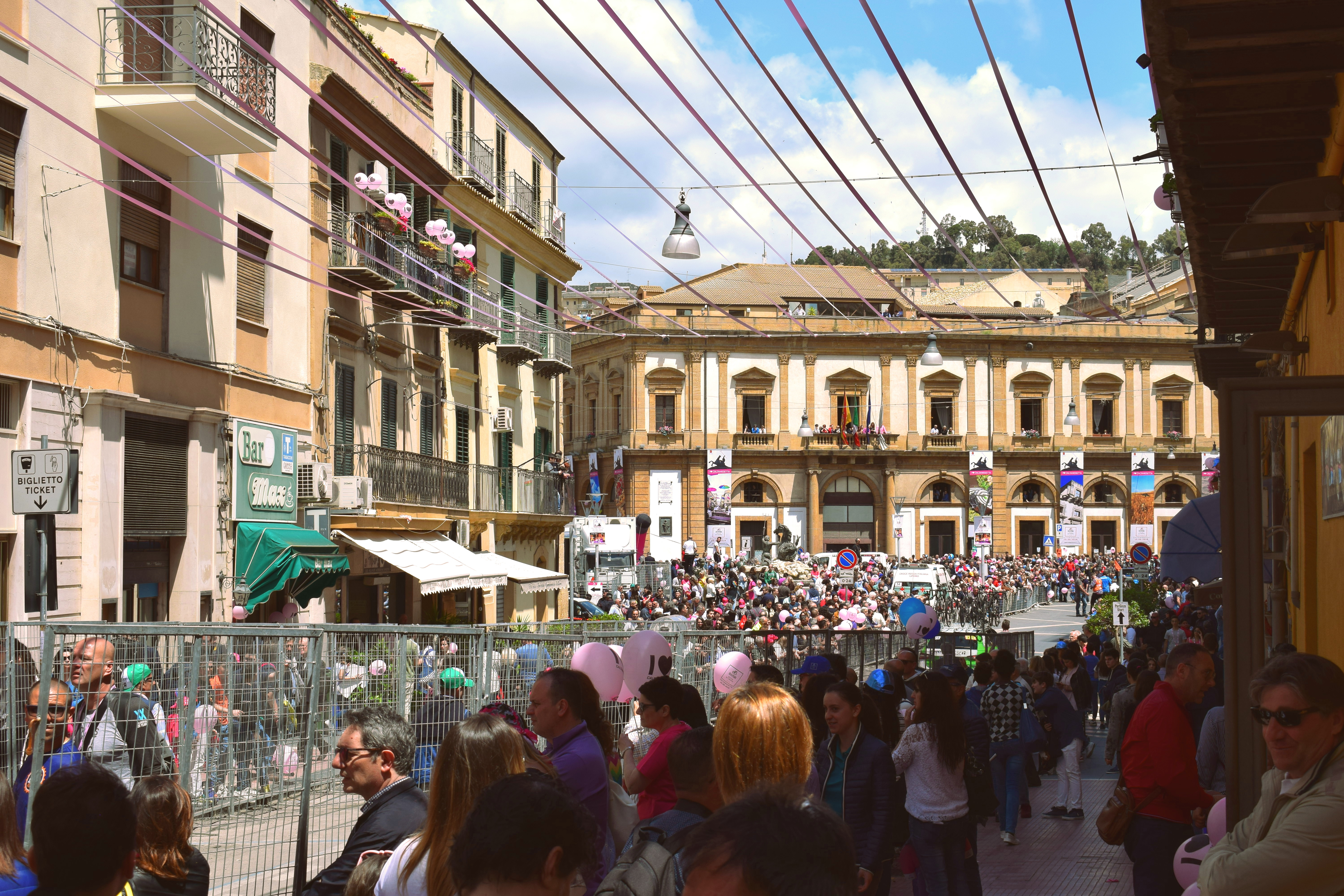 2018 Giro d'Italia: crowd in Garibaldi square, in Caltanissetta, Italy, starting town of sixth stage (May 10th). On the background, Palazzo del Carmine, the city hall, with territorial promotion banners on its front.